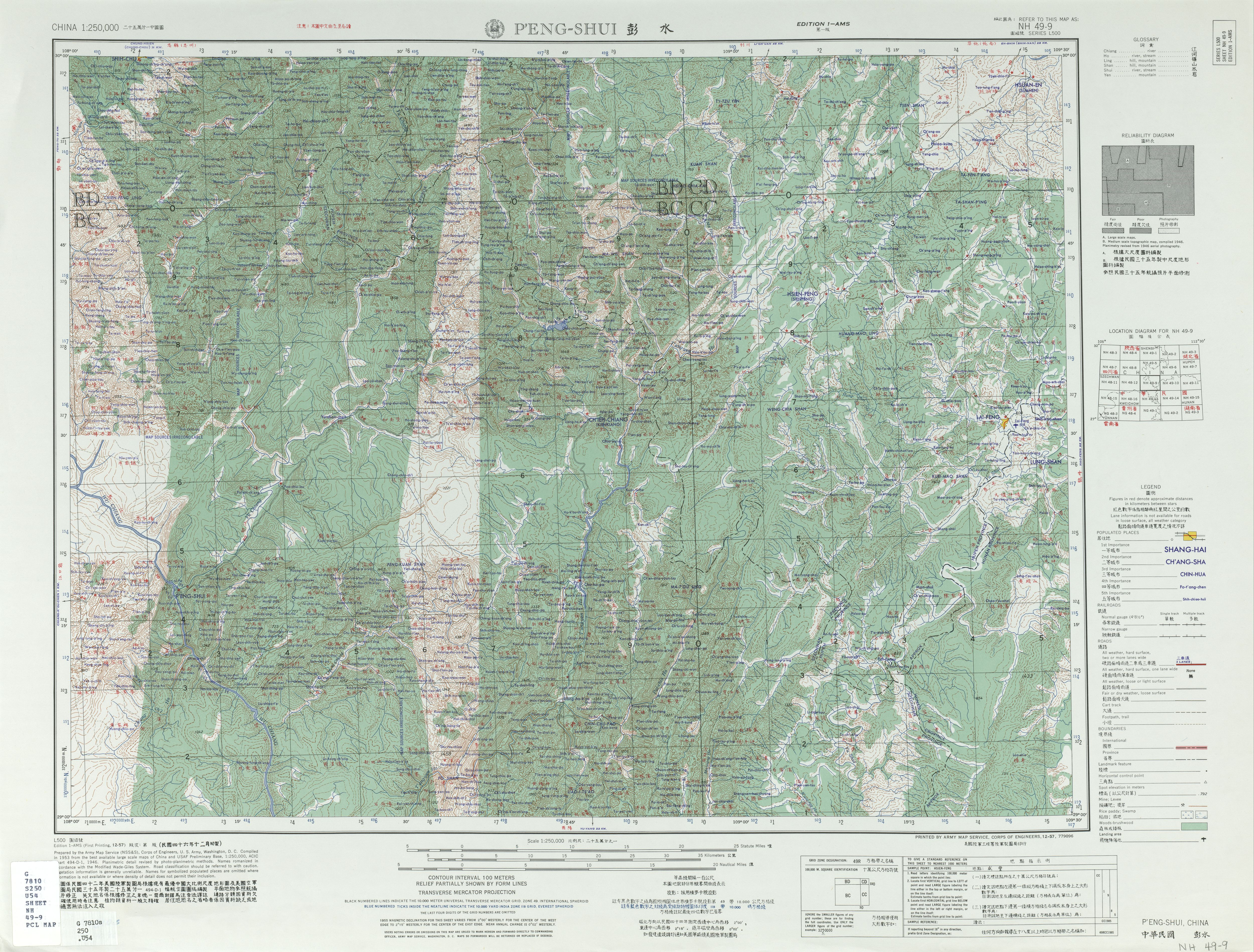 China AMS Topographic Maps